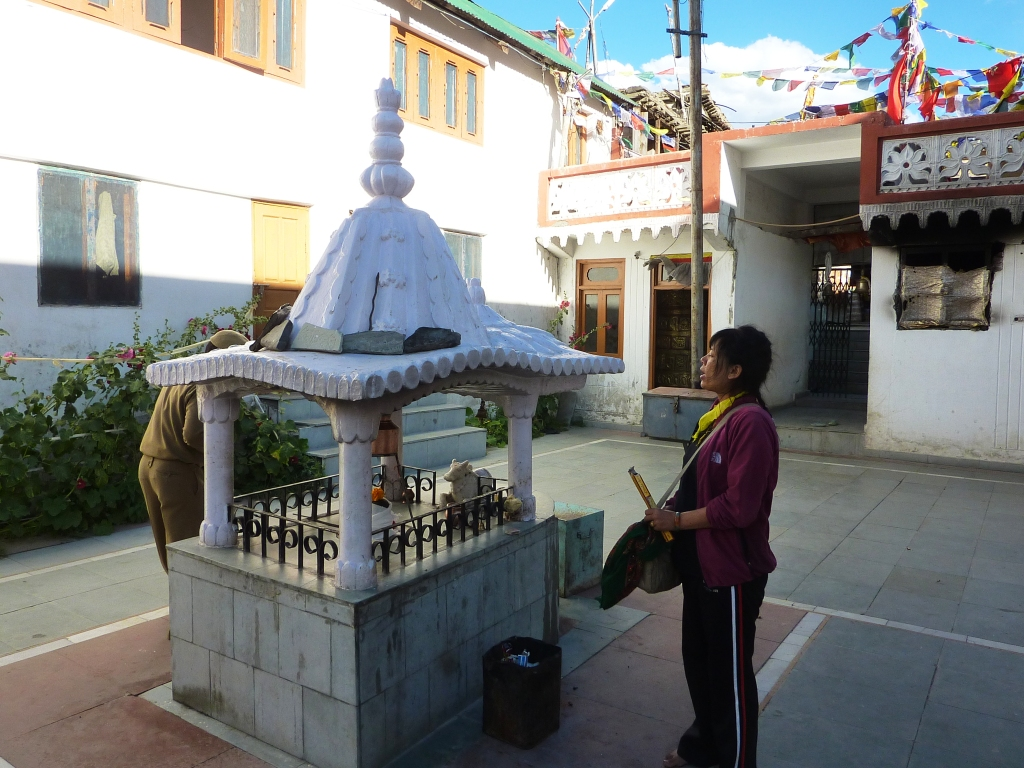 Photo inside temple courtyard